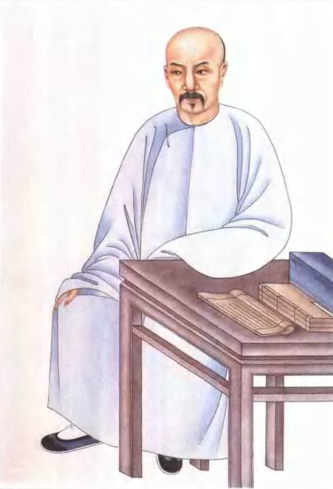 Dai Zhen (Chinese: 戴震; pinyin: Dài Zhèn; Wade–Giles: Tai Chen, January 19, 1724—July 1, 1777) was a notable Chinese scholar of the Qing Dynasty from Xiuning, Anhui. A versatile scholar, he made great contributions to mathematics, geography, phonology and philosophy. His philosophical and philological critiques of Neo-Confucianism continue to be influential.